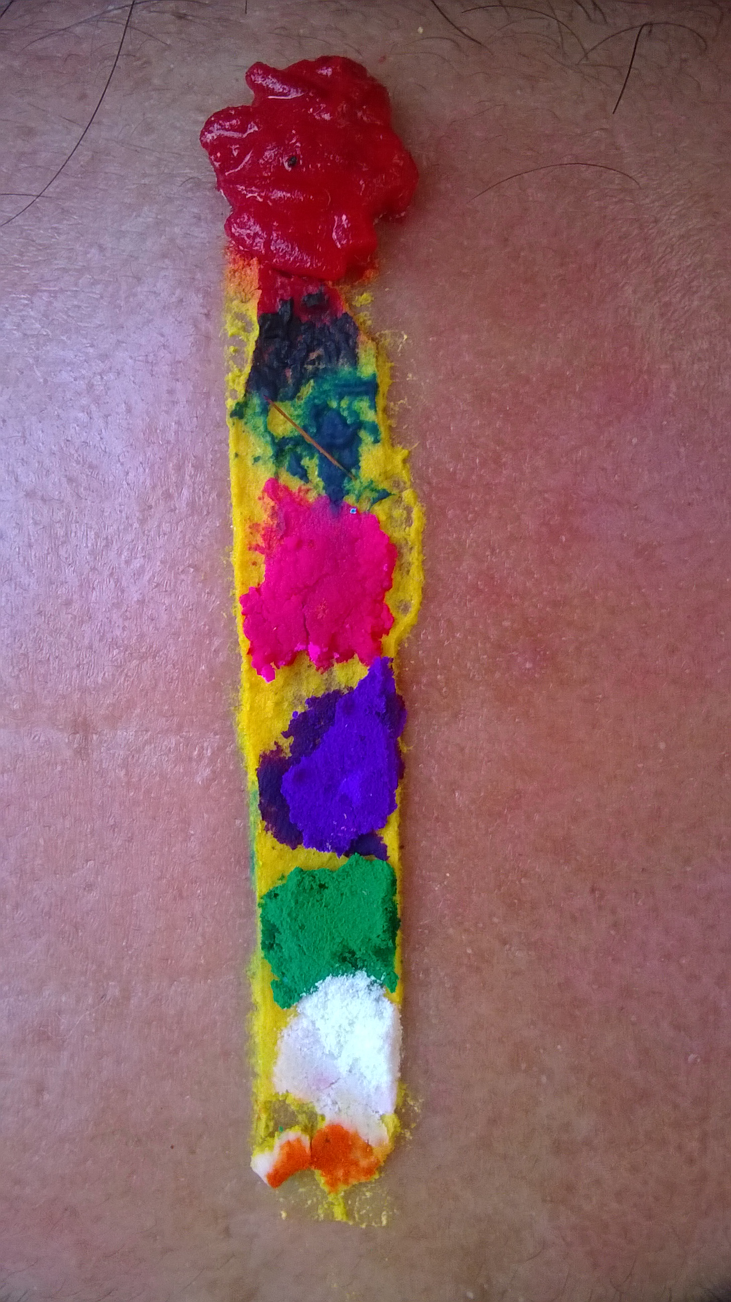 Tika put on forehead during Bhai Tika festival in Nepal.